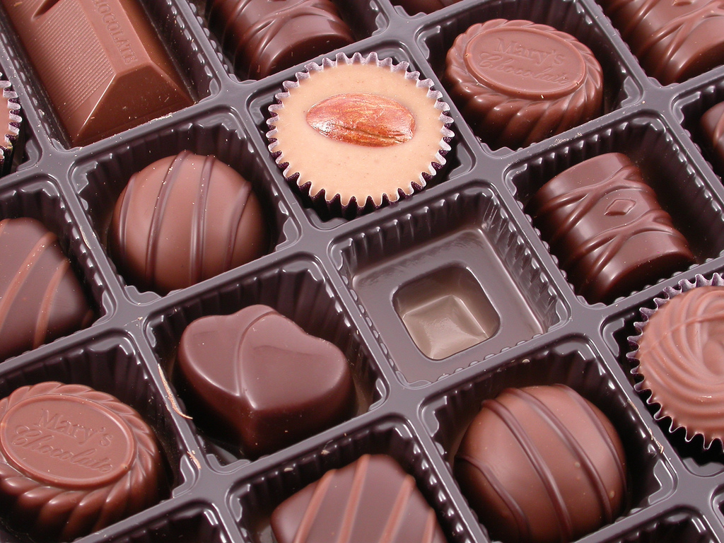 A gift box of chocolates made by Mary Chocolate Co.,Ltd of Japan. Story in 5 frames: M's Valentine Chocolates.